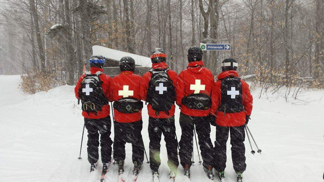 Photo of Five Canadian Ski Patrol Volunteers at Ski Montcalm in March 2017 in Rawdon, Quebec